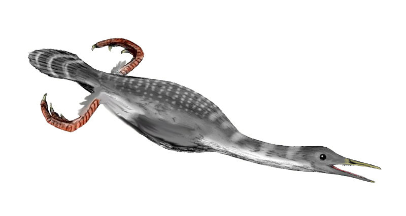 Hesperornis regalis, a bird from the Late Cretaceous of North America, pencil drawing